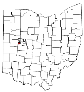 Adapted from Wikipedia's OH county maps. Created by SwissCelt.